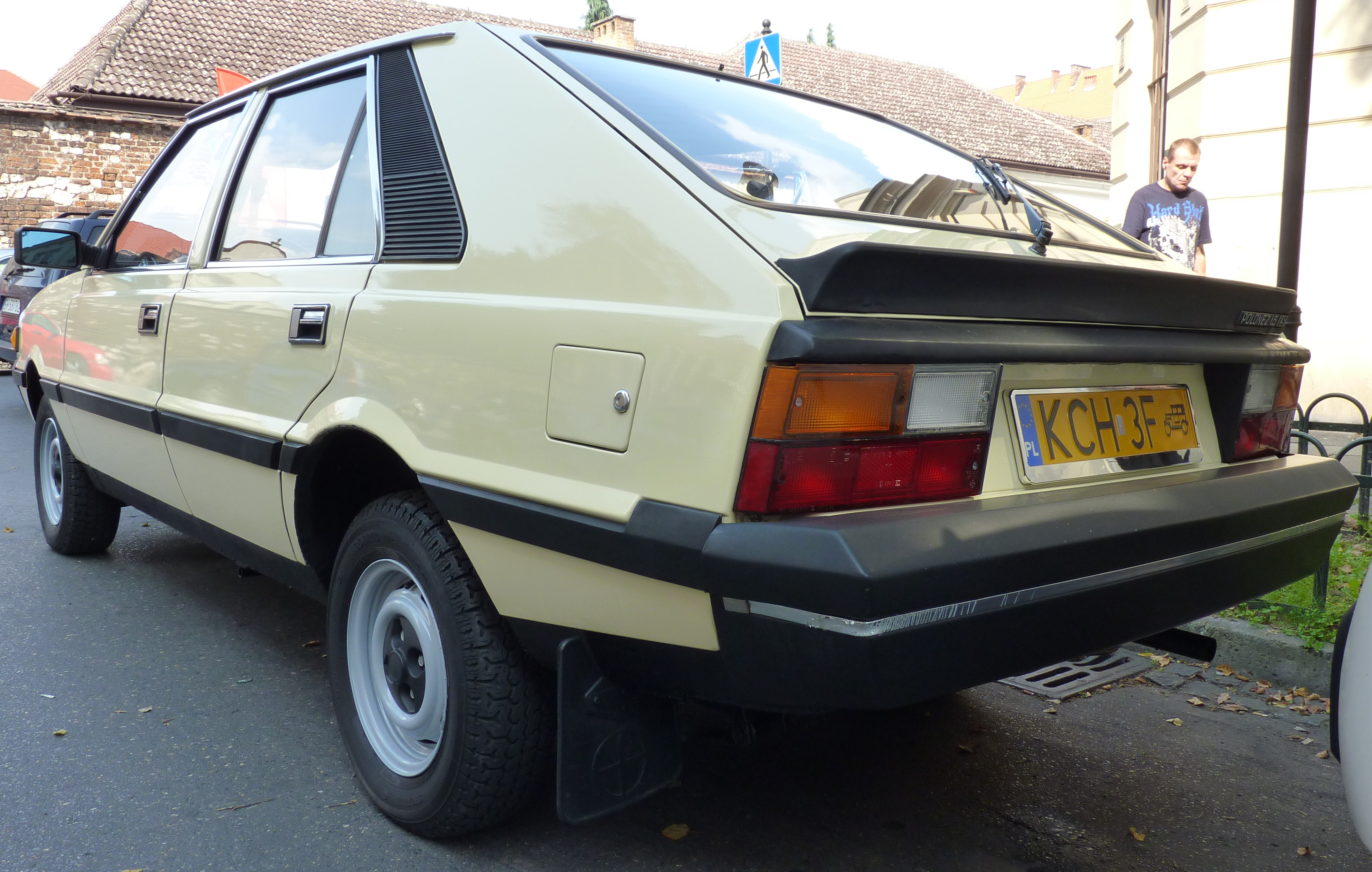 Classic Moto Show 2014 in Kraków.